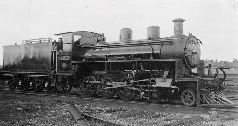 A three quarter view of PWD steam locomotive Nornalup, which was to become WAGR Q class no. Q 63 in 1931.